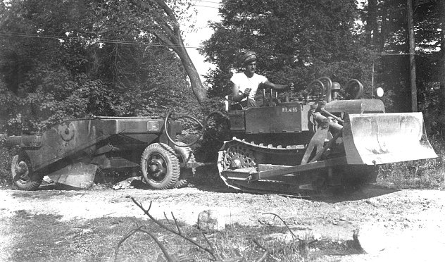 Clark tractor- airfield